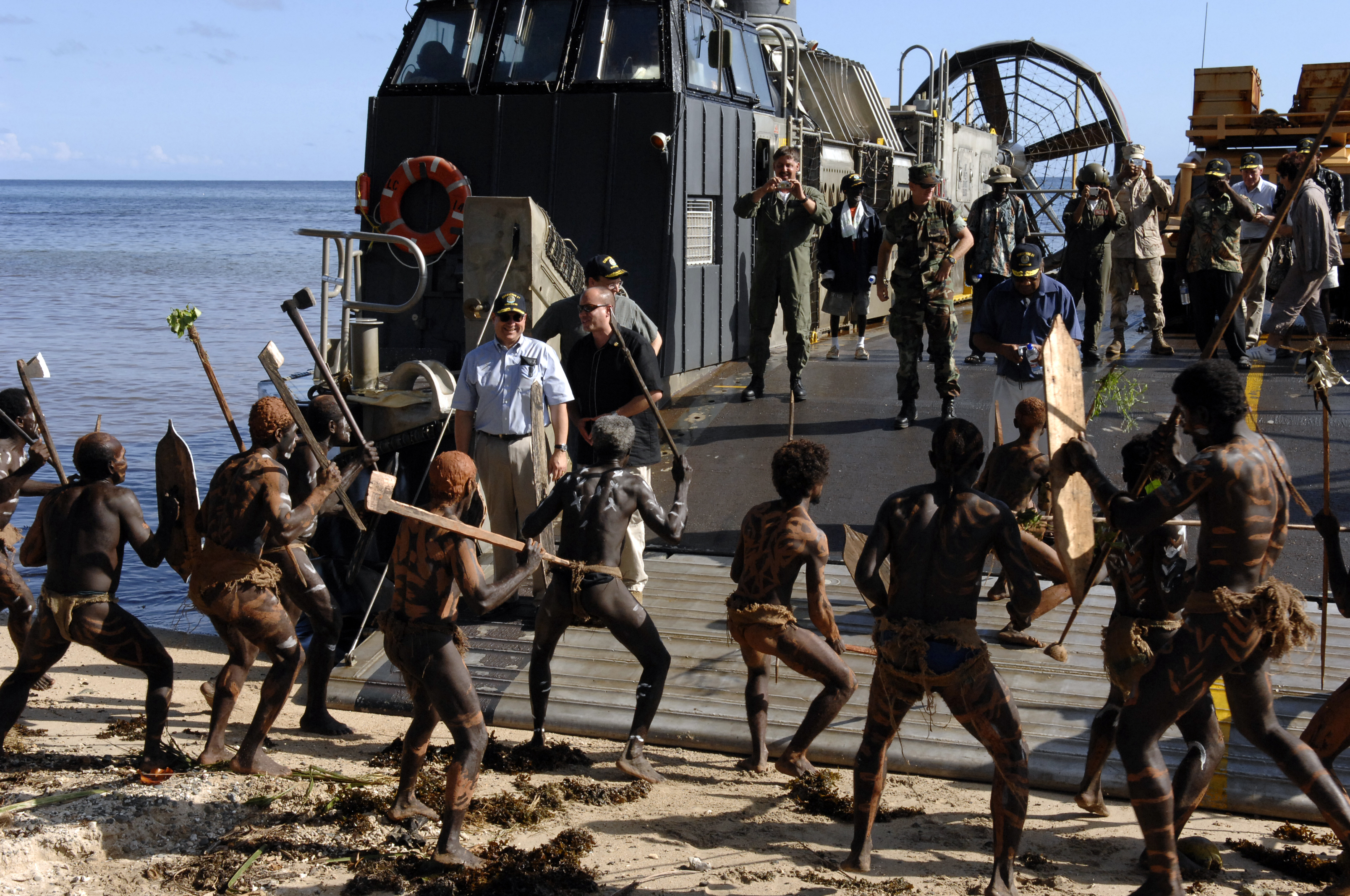 SASSAMUNGA, Solomon Islands (Aug. 22, 2007) - Locals welcome Secretary of the Navy (SECNAV), the Honorable Dr. Donald C. Winter with tribal dance during his tour of Sassamunga. SECNAV is visiting the Solomon Islands to get a first-hand look at Sailors, Marines, and non-governmental organizations working together in support of Pacific Partnership. U.S. Navy photo by Chief Mass Communication Specialist Shawn P. Eklund (RELEASED)